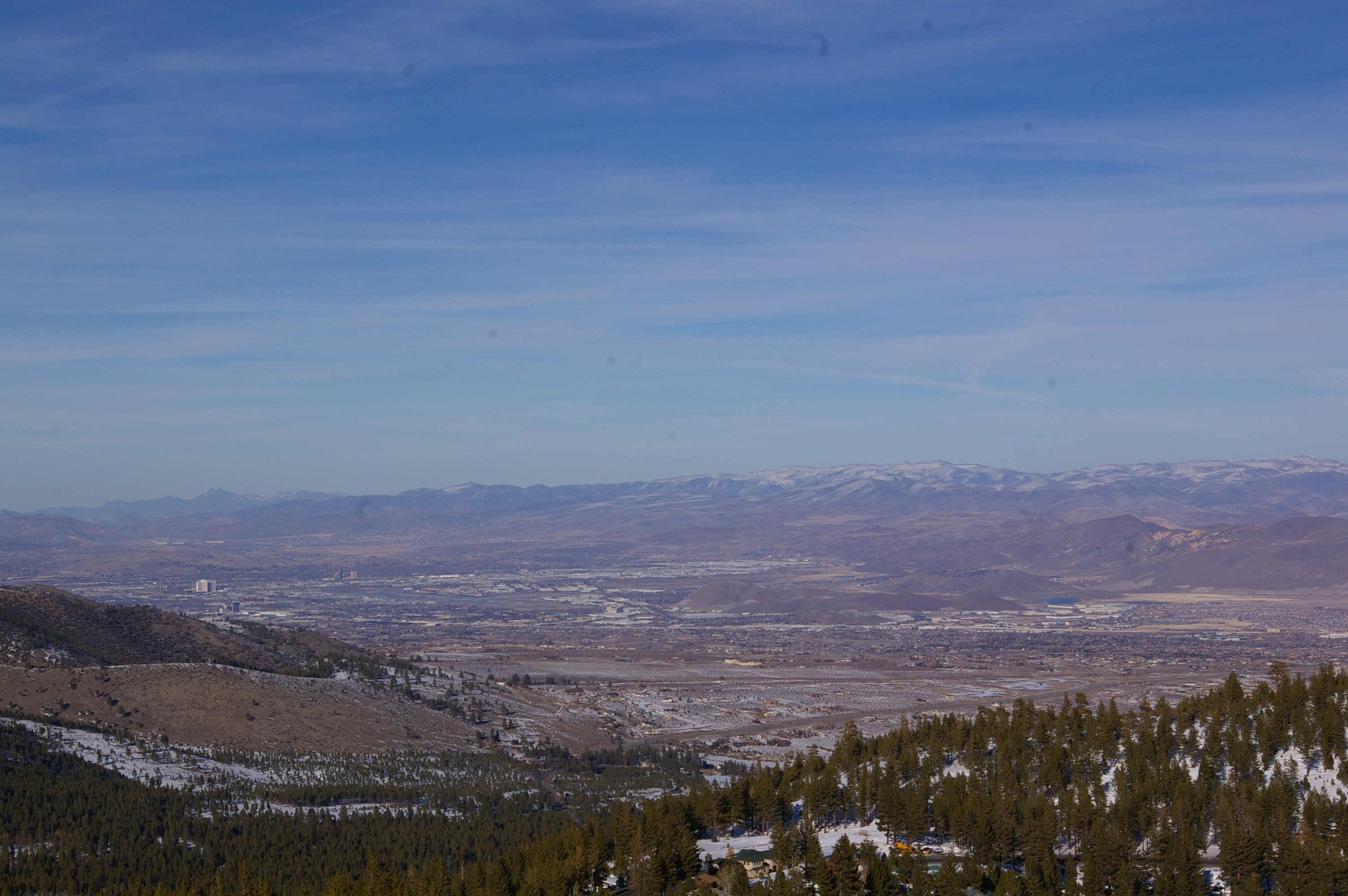 Reno as seen from Nevada State Route 431